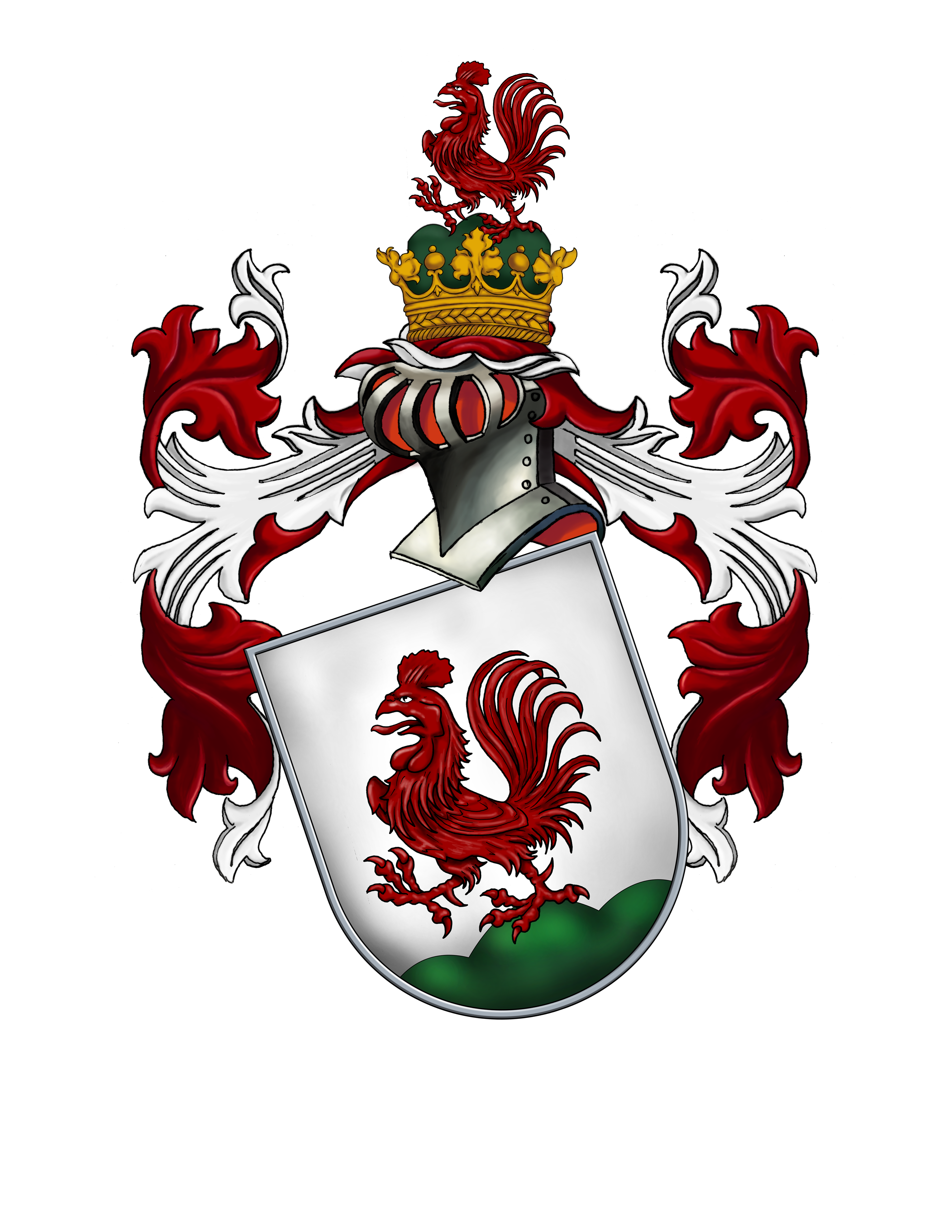 The coat of arms of the Reichsfreiherren (Barons) von Hahnsberg